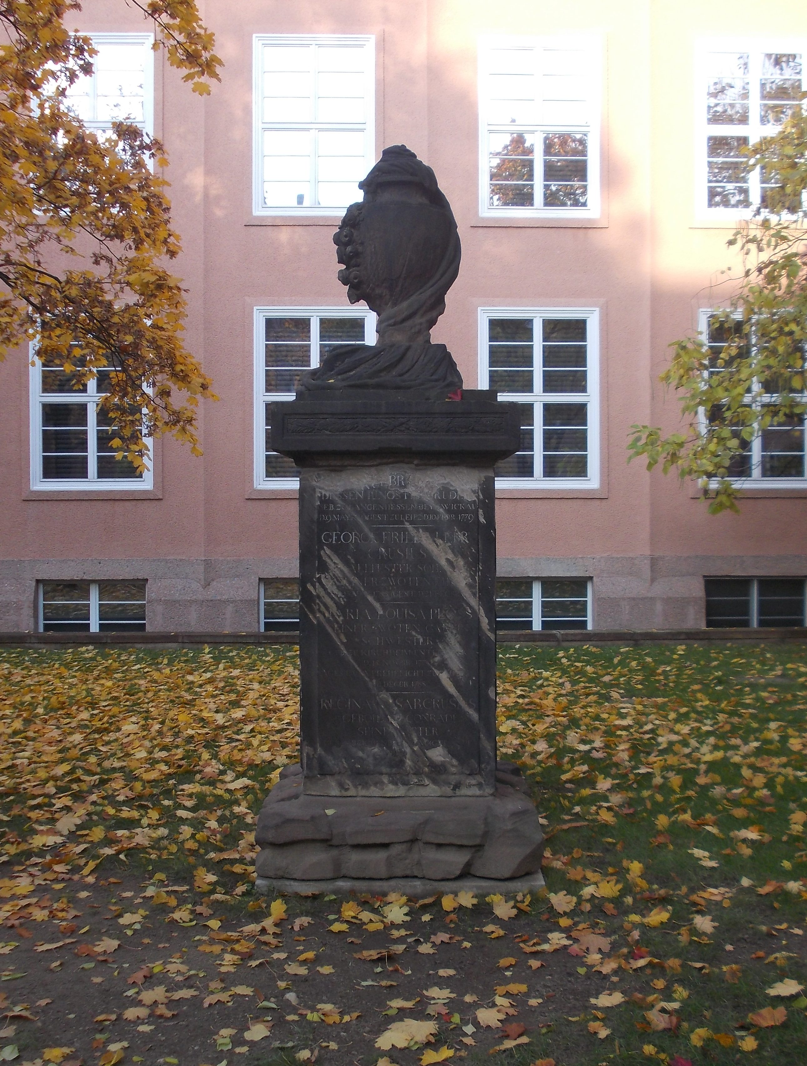 Old St. John's Cemetery in Leipzig (Saxony)